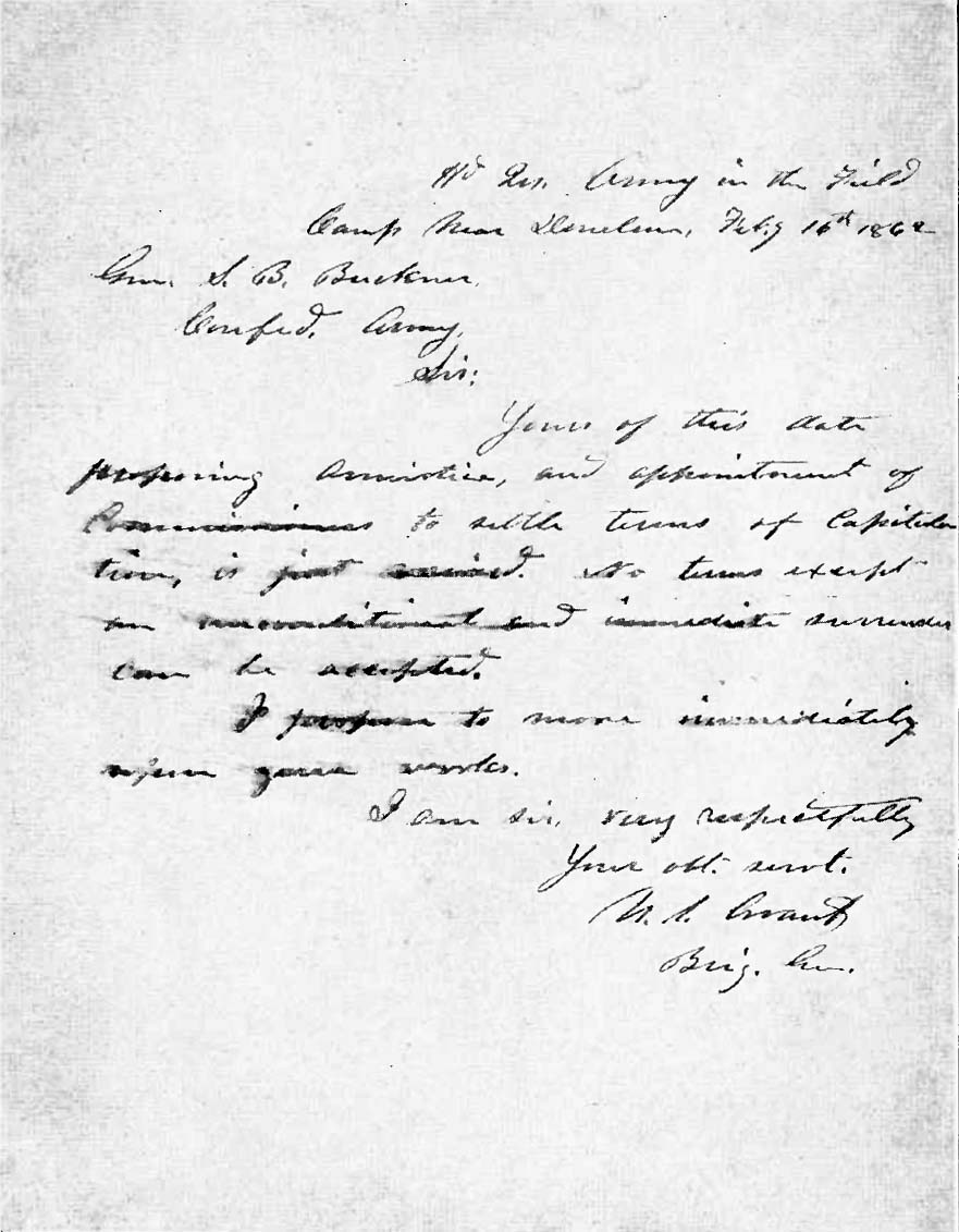 Letter from Union General Ulysses S. Grant to Confederate General S. B. Buckner requesting the unconditional surrender of Fort Donelson